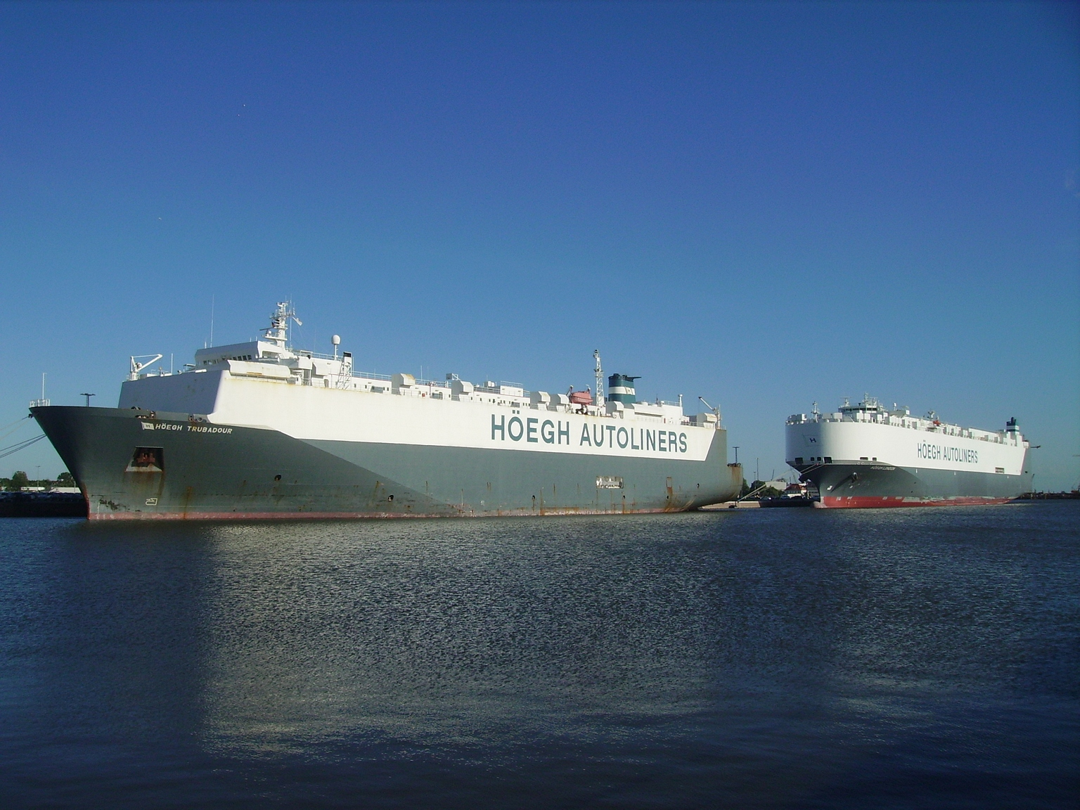 The car carrier Höegh Trubadour and the car carrier Höegh London in the port of Bremerhaven, Germany. Höegh Trubadour IMO number: 7900211 Höegh London IMO number: 9342205